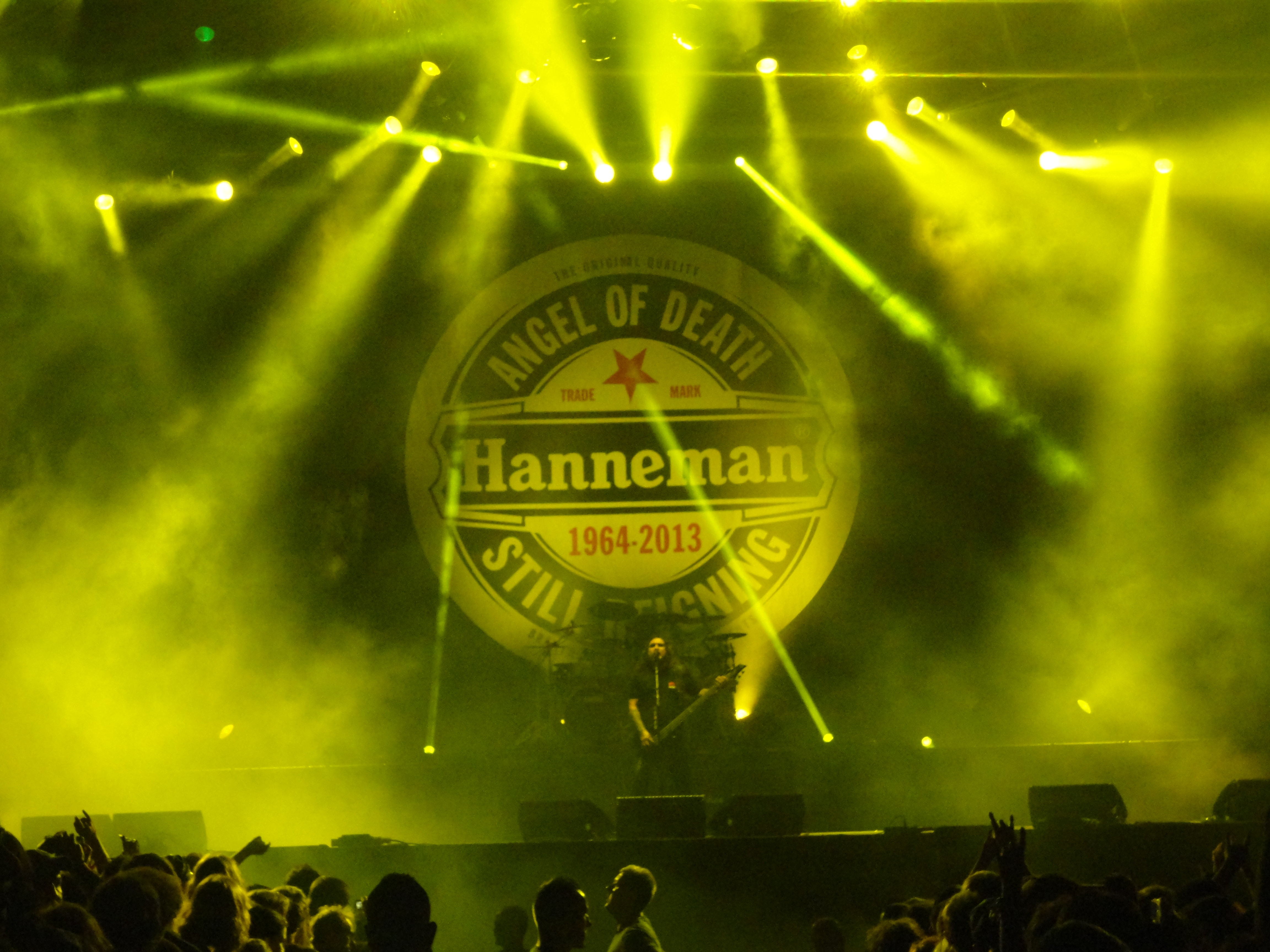 Slayer background tribute to Jeff Hanneman